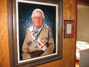 A portrait of "Doc" Lewis inside the Tsoiotsi Tsogalii Lodge building.